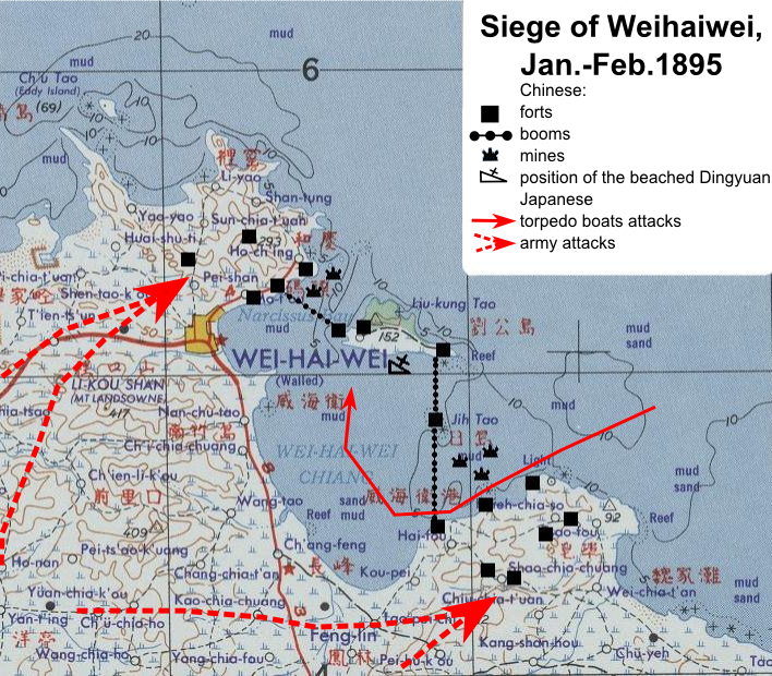 Battle of Weihaiwei map, 1895, English version